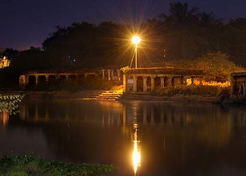 Ancient structures dot the banks of river Thamarabarani